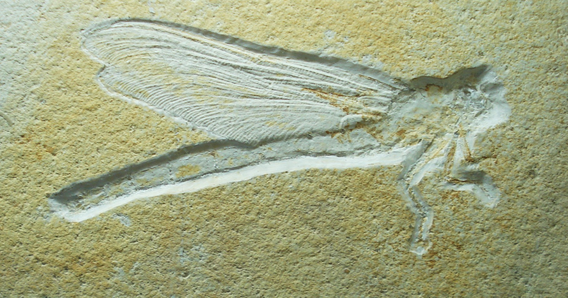 fossil of anisophlebia